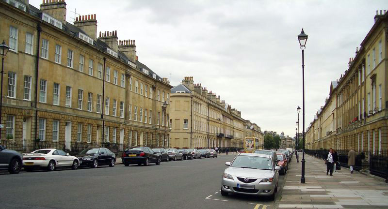 Great Pulteney Street, Bath, looking West towards Pulteney Bridge. The style and Bath stone used are typical of much of the city. Picture taken by Dave Evans (the uploader), 3 Oct 2005.